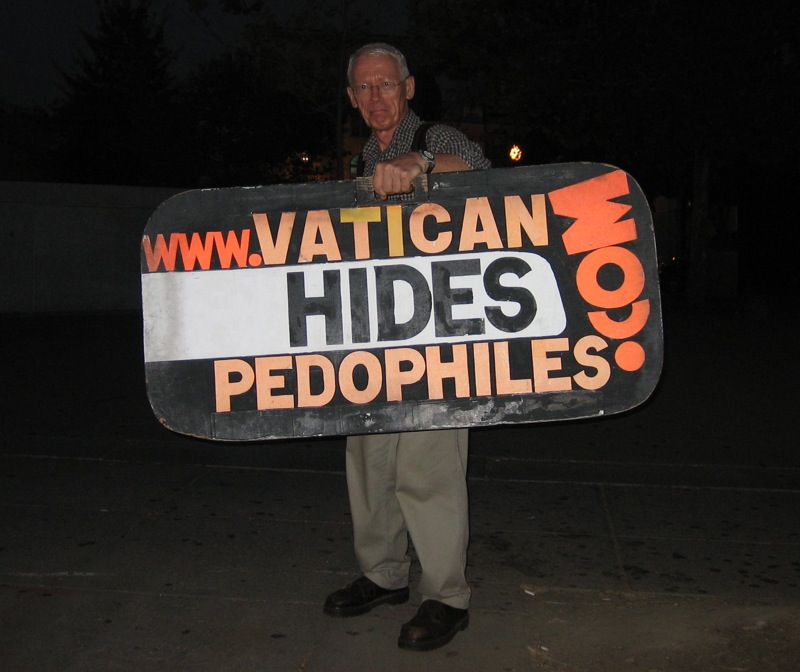 This guy (John Wojnowski) was hanging out in DC near 18th and Flordia one evening. I think he rulez!